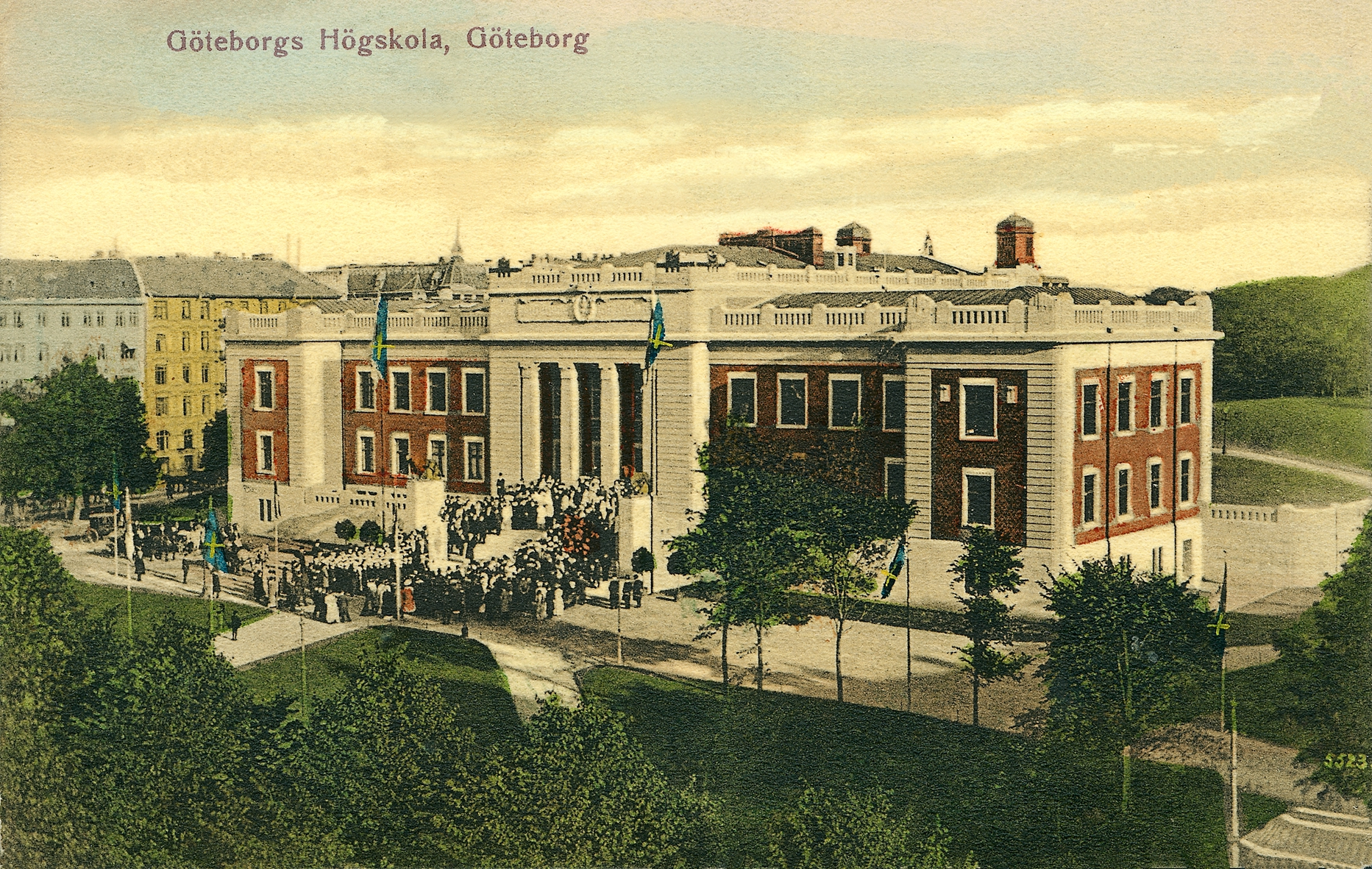 Postcard from the inauguration of Vasaparken 1908, view from Vasaplatsen. The building is University of Gothenburg's main building.